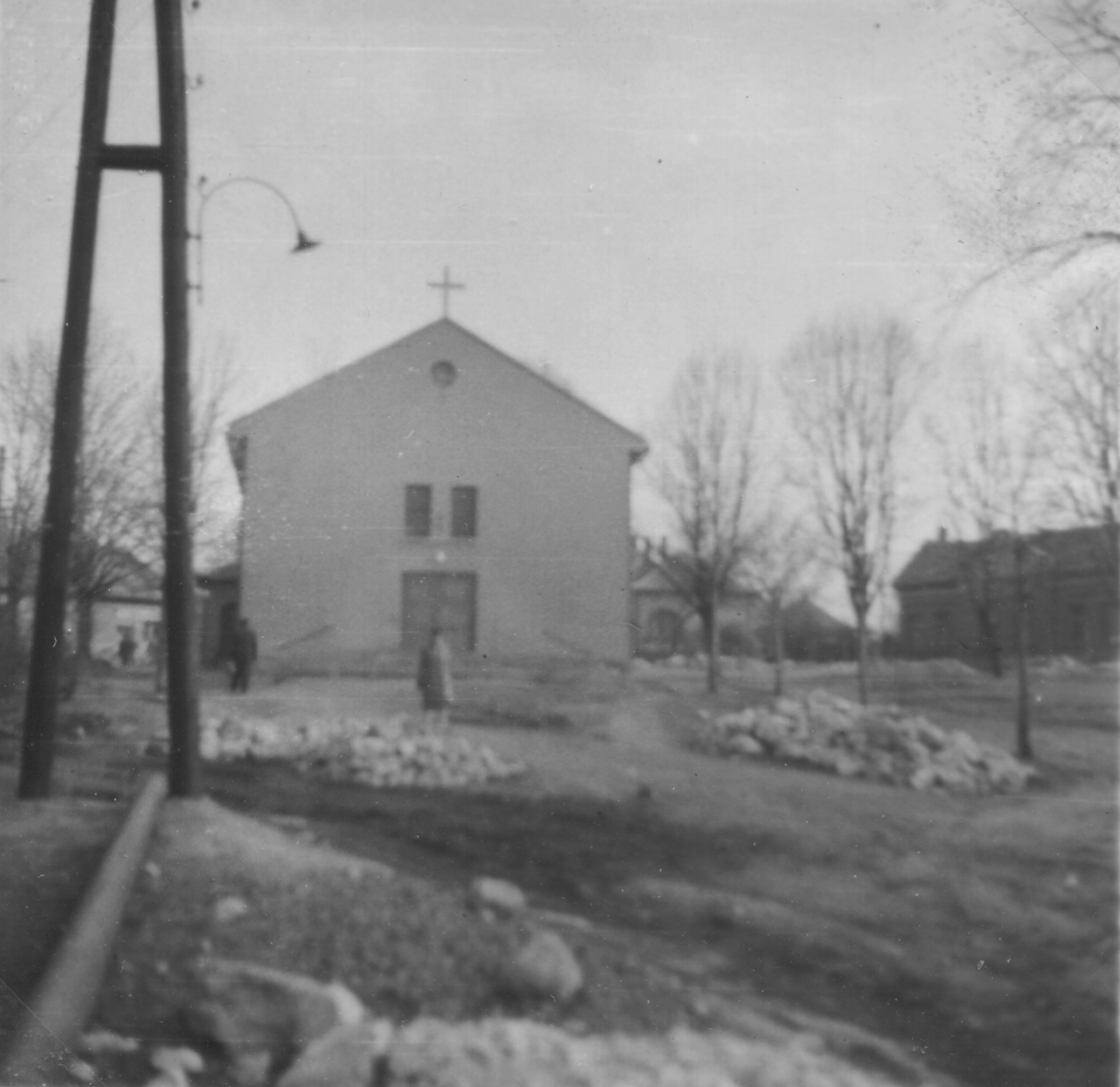 The Saint Elizabeth Parish Church, Rákoscsaba-Újtelep, Budapest, Hungary in 1960